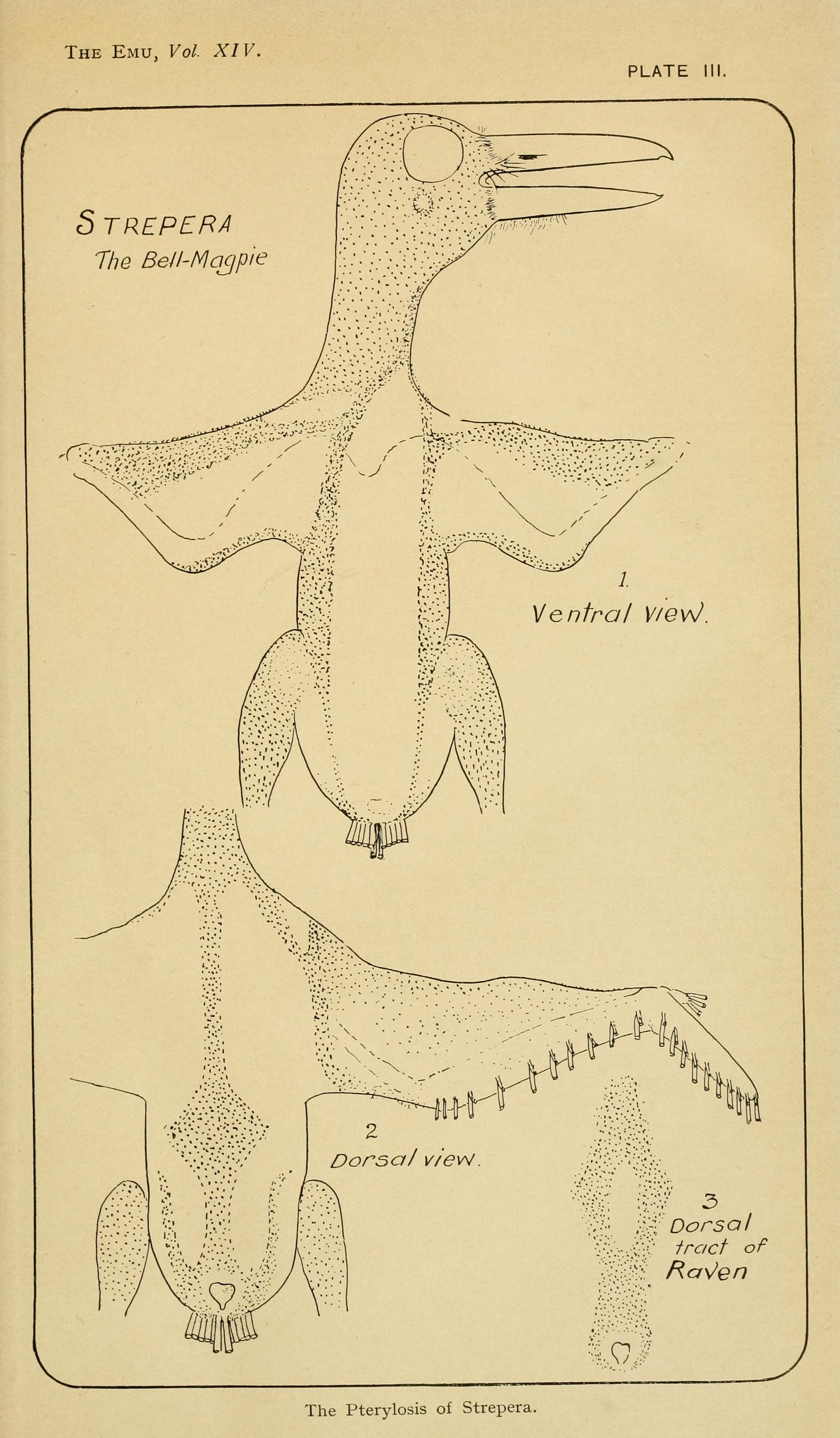 Pterylopsis of Strepera, the Bell-Magpie Title: The Emu : official organ of the Australasian Ornithologists' Union Year: 1901 (1900s) Authors: Royal Australasian Ornithologists' Union Subjects: Ornithology; Birds Publisher: Melbourne : Royal Australasian Ornithologists Union Text Appearing Before Image: The Emu, Vol. XIV. PLATE III. 5 TREPERA 7he Be/I-Mqcipie Text Appearing After Image: 3 , - Dorsal iracf of " Ra\/en C? The Pterylosis of Strepera.